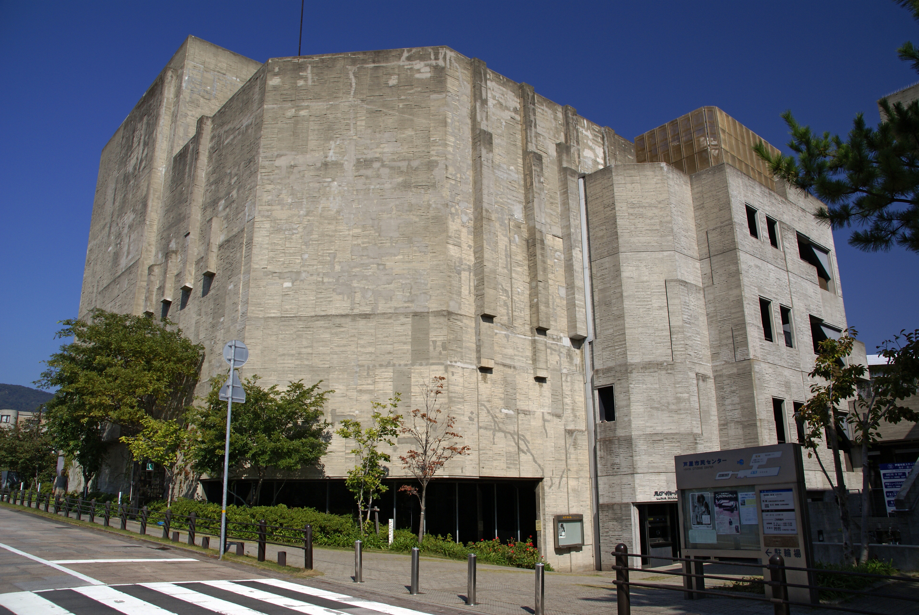 Lune Hall in Ashiya, Hyogo prefecture, Japan